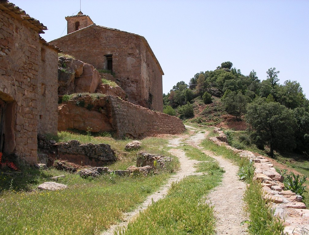 St. Steve's Church in Pallerols (La Baronia de Rialb, Catalonia)